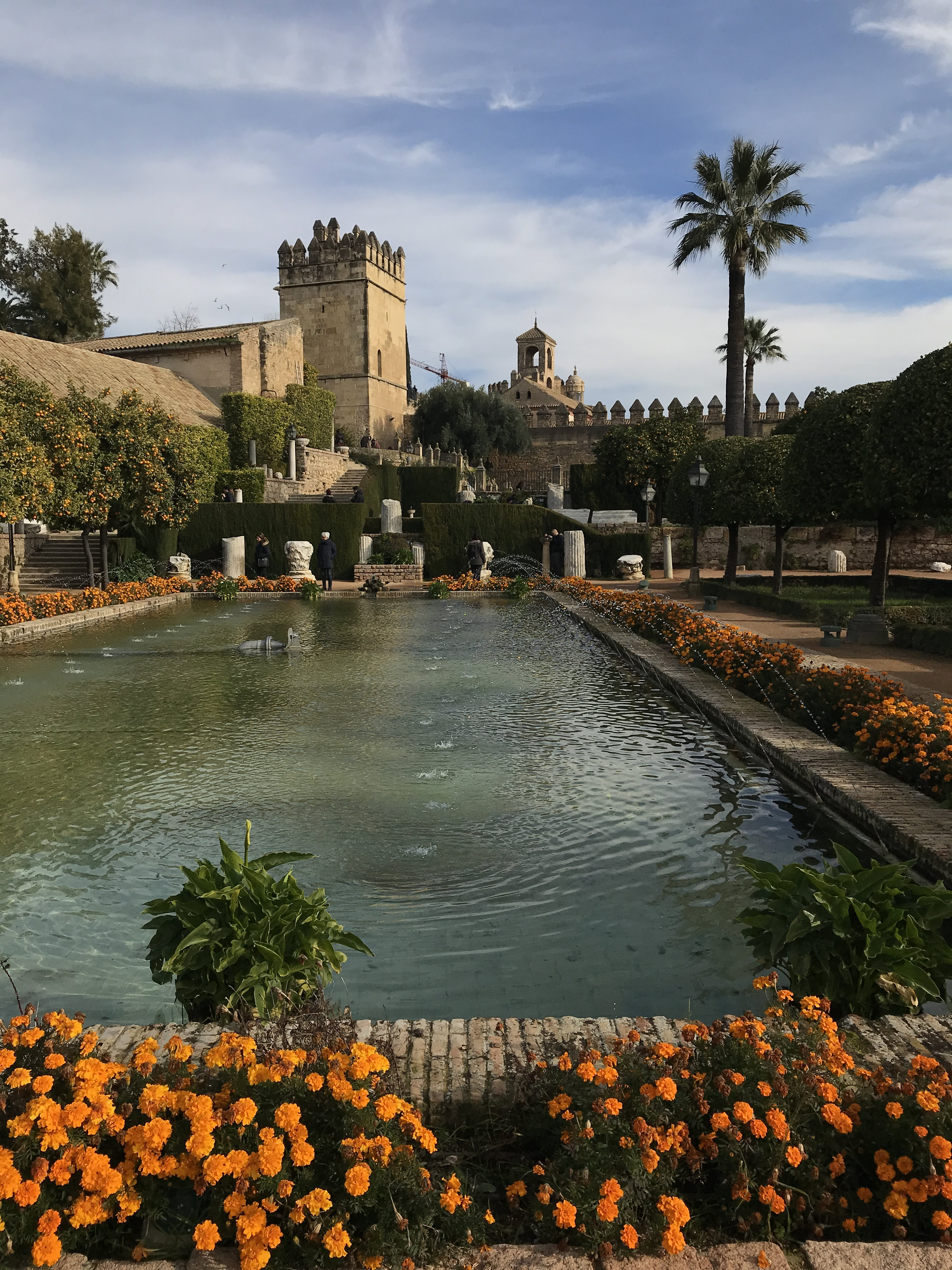 Photo of the Alcazar of the Christian Monarchs (alcazar de los reyes cristianos)